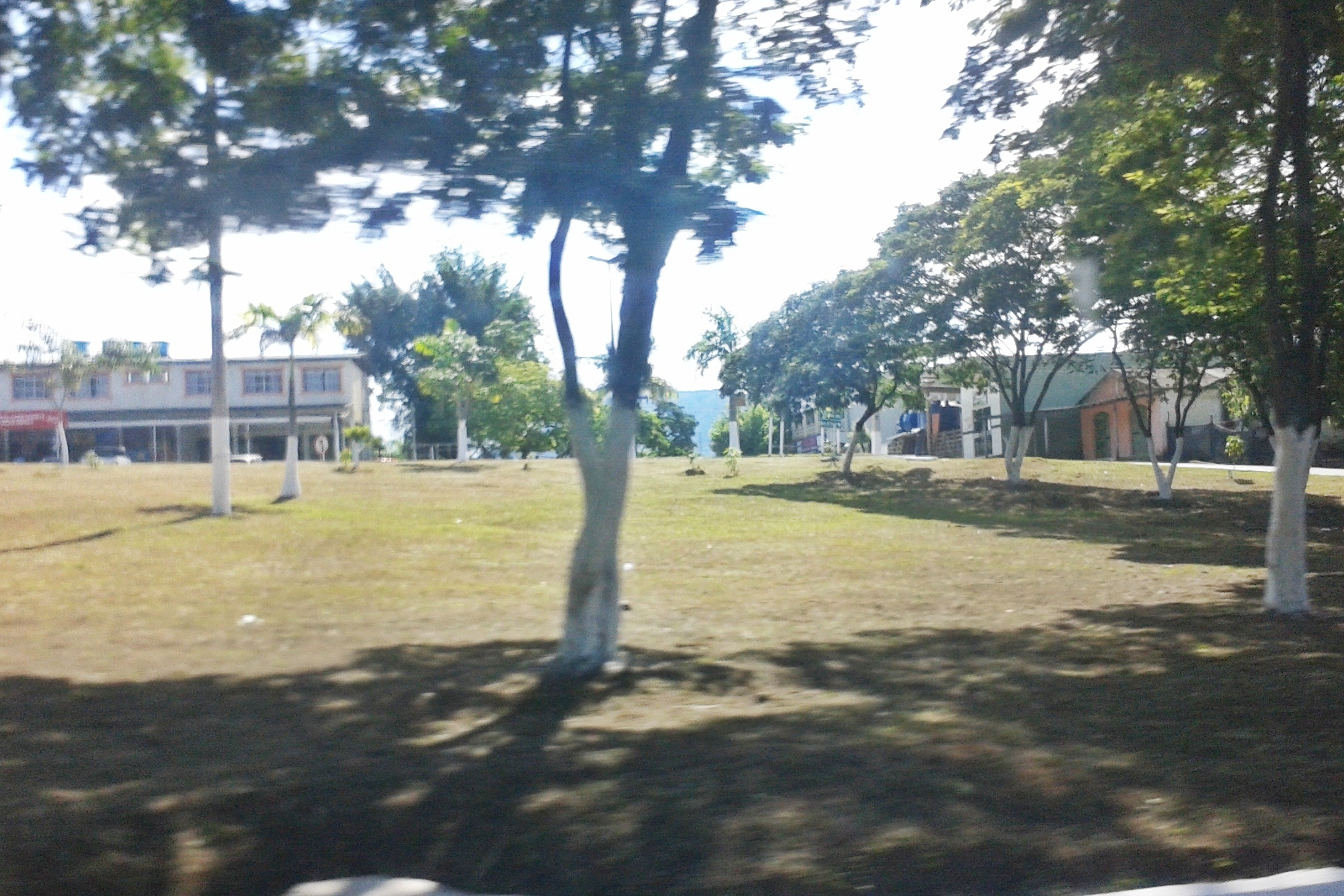 Roundabout in the entrance of the Belo Oriente city, Minas Gerais, Brazil.